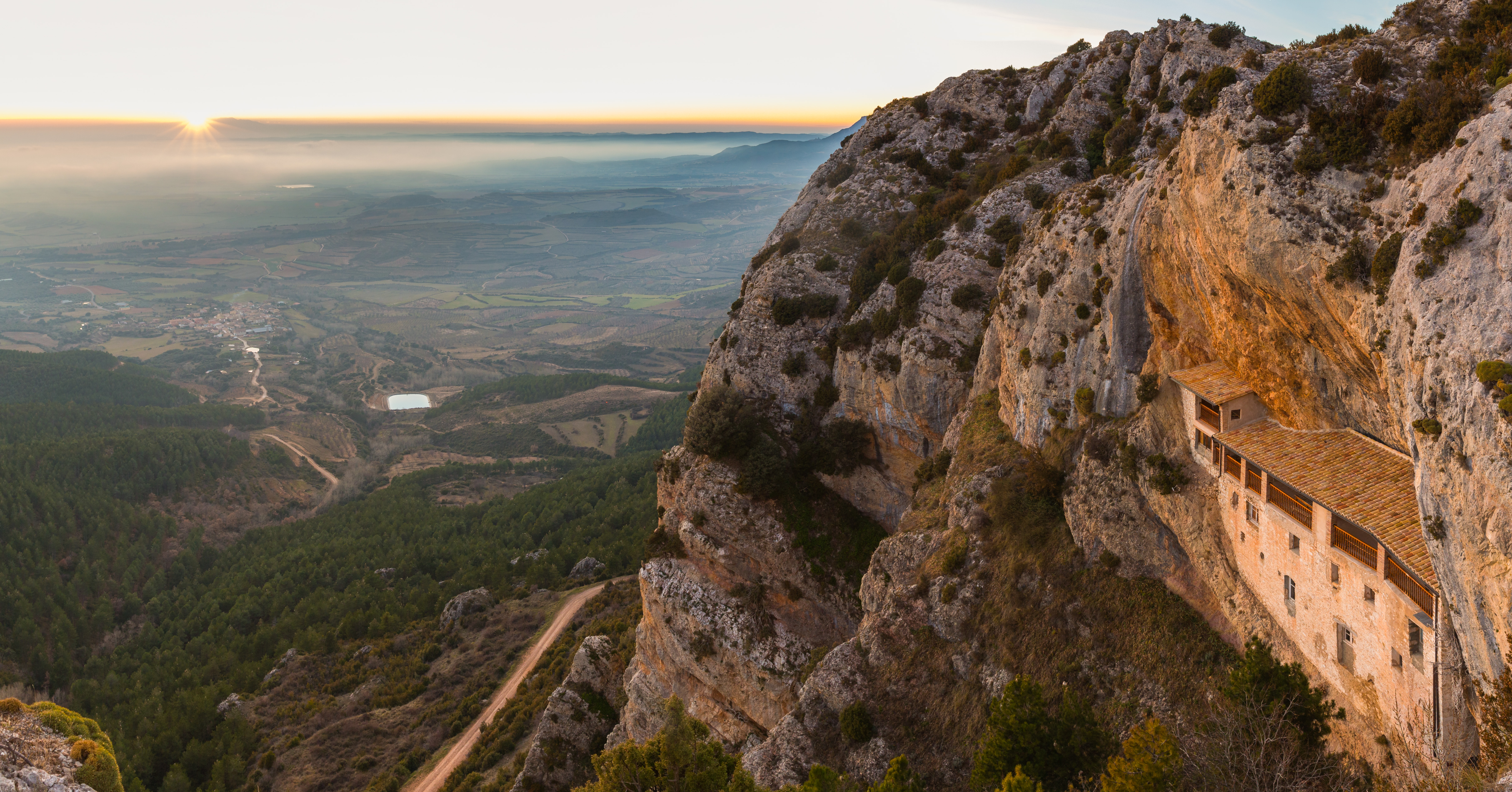 Sunset view of the Ermita de la Virgen de la Peña (Hermitage of the Virgin of the Rock), province of Huesca, Spain. The village of Aniés is seen on the left. The oldest parts of the sanctuary date to Roman times, while much was built in the 13th Century. The hermitage is only accessible on foot, via a steep path in the forest and through caves in the mountain.